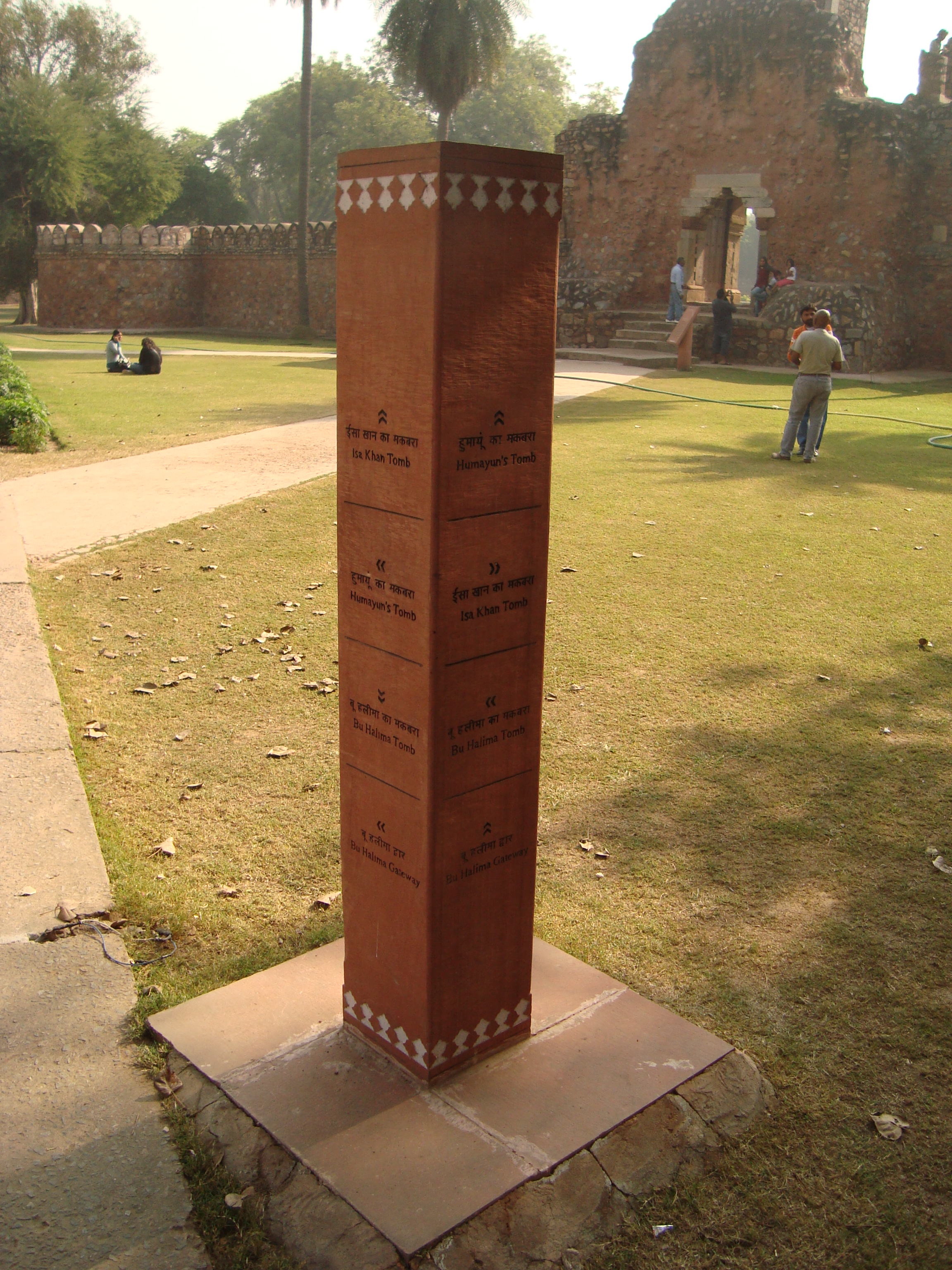 Signpost in front of the Humayun's Tomb Complex, New Delhi, India